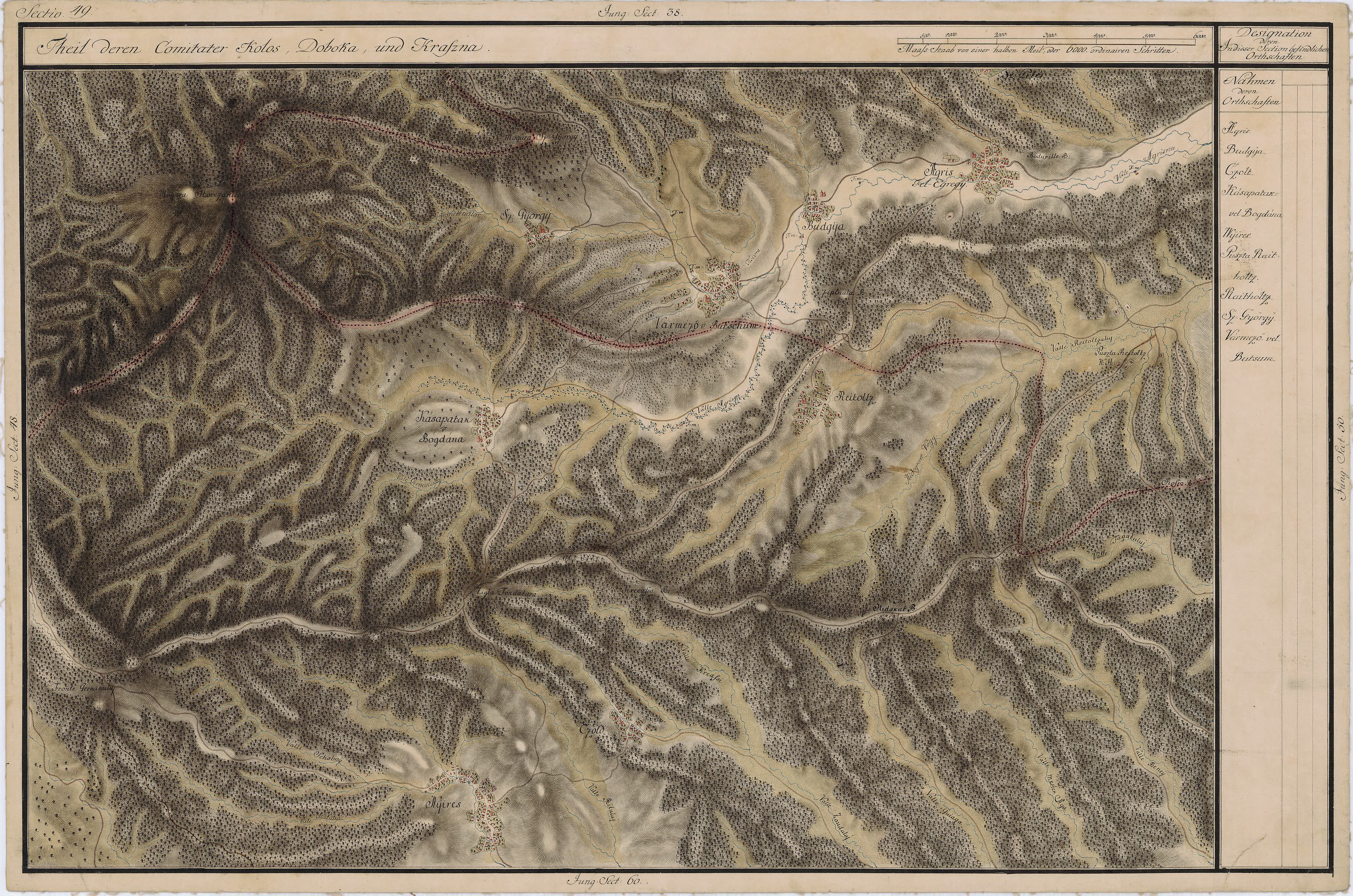 Grand Duchy of Transylvania, 1769-1773. Josephinische Landaufnahme pg.049